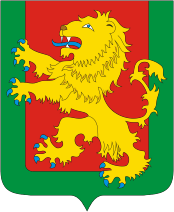 Rzhev rayon (Tver oblast), coat of arms